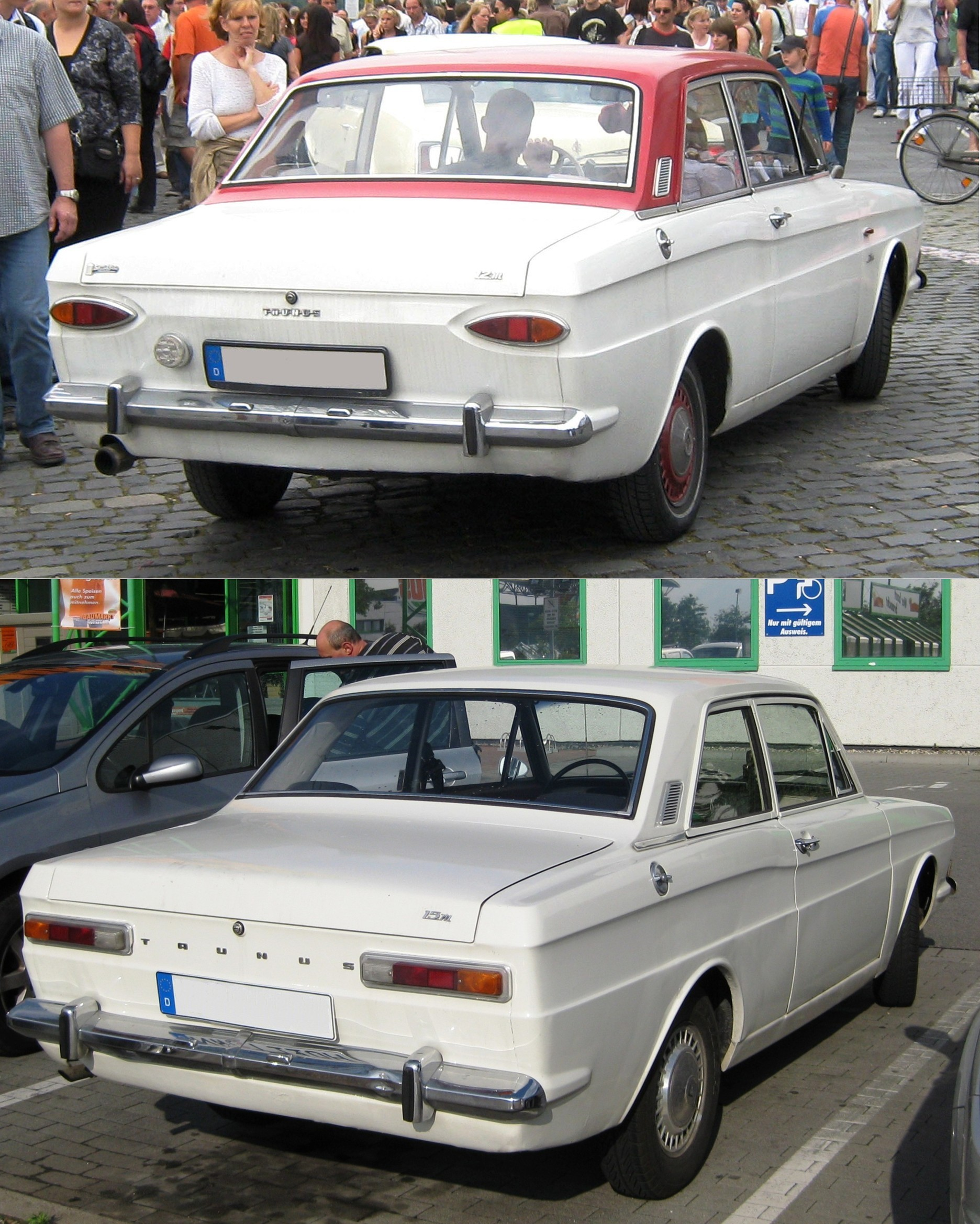 The rear ends of two Ford Taunus P6s, highlighting the differing rear treatments on the two (in most respects identical) cars. The rear light clusters on the 12M took the form of an extended lozenge. The rear light clusters on the 15M were rectangular. This is a compilation of two images on Wikipedia Commons. One of them was uploaded by me under copyright categories (as recommended by the uploading program at the time) CC-BY-SA-3.0,2.5,2.0,1.0. The other was uploaded by user Kroelleboelle also under copyright categories CC-BY-SA-3.0,2.5,2.0,1.0, which as far as I can make out is the same set of copyright categories, though I no longer remember (if I ever knew) exactly what it means.